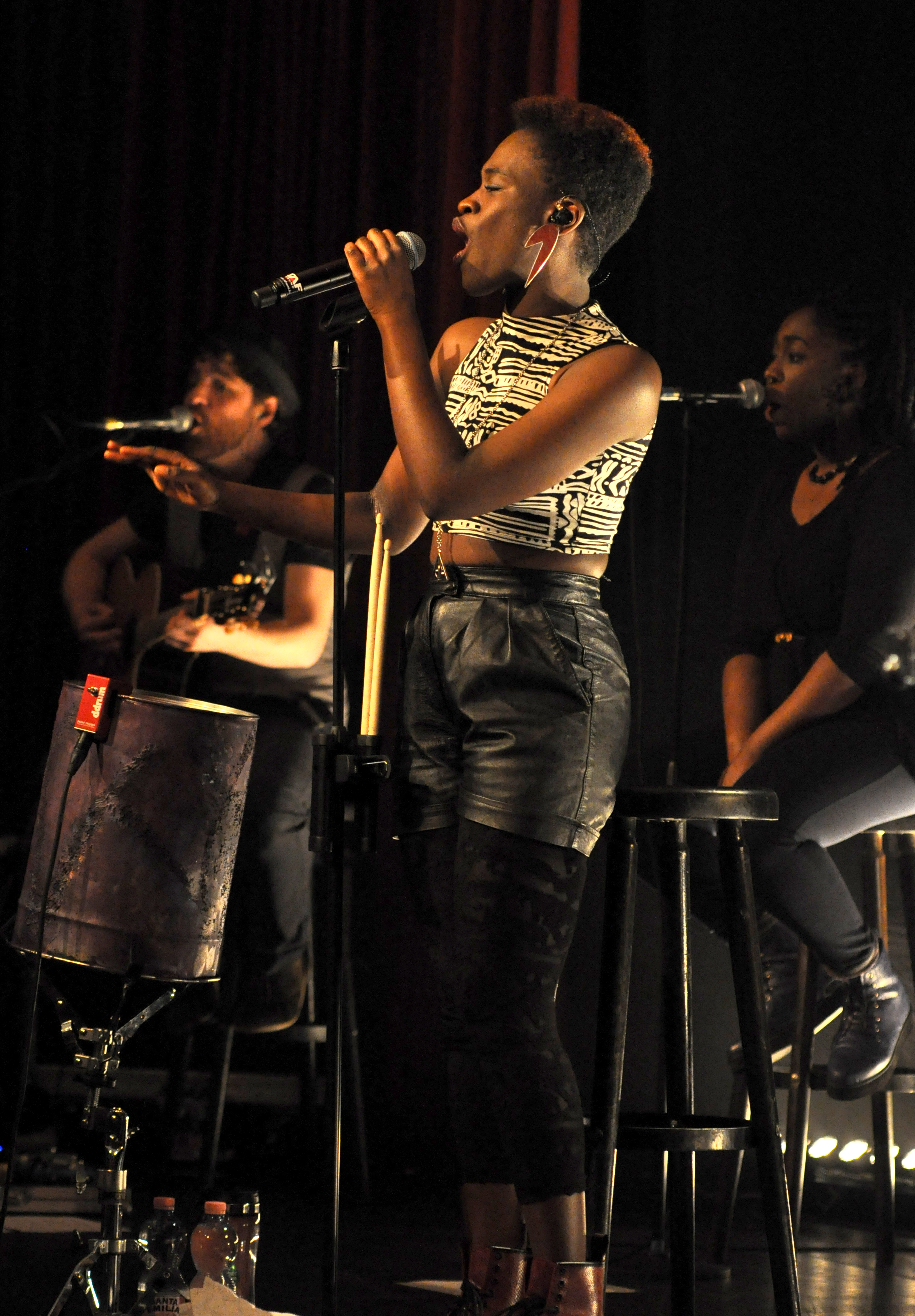 Ivy Quainoo at a concert in Gloria Theater, Cologne, in January 2014